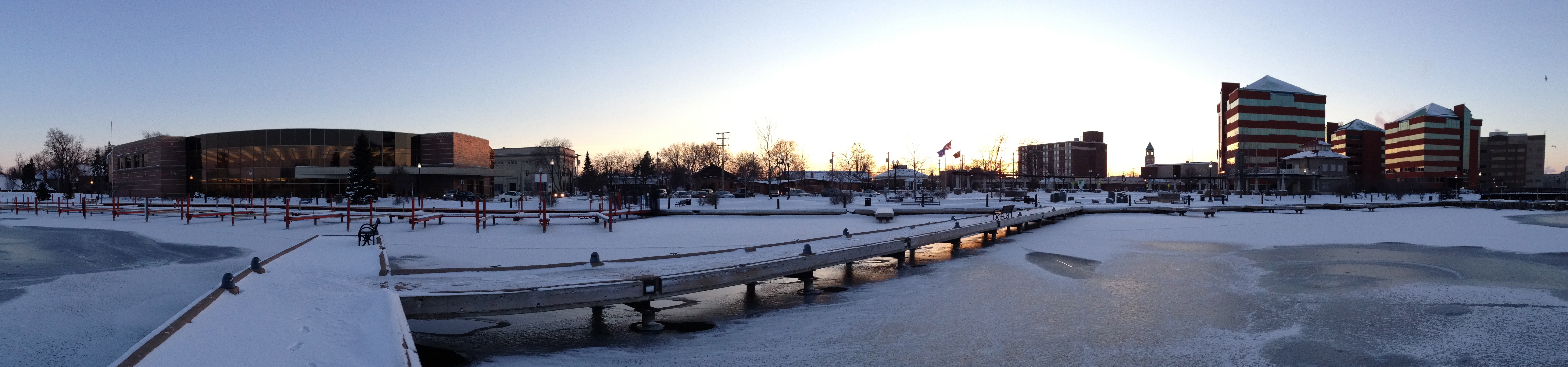 The Neenah Public Library, Shattuck Park, the Clocktower, and the Neenah Centers.